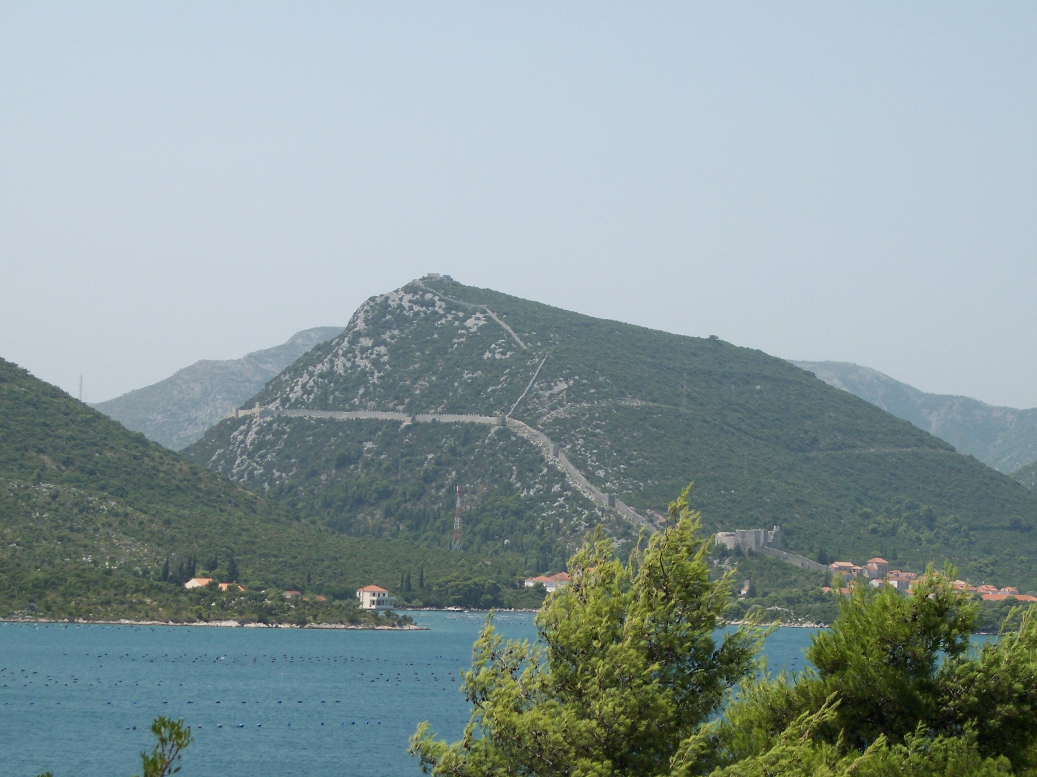 Fortifications at Ston (Croatia)